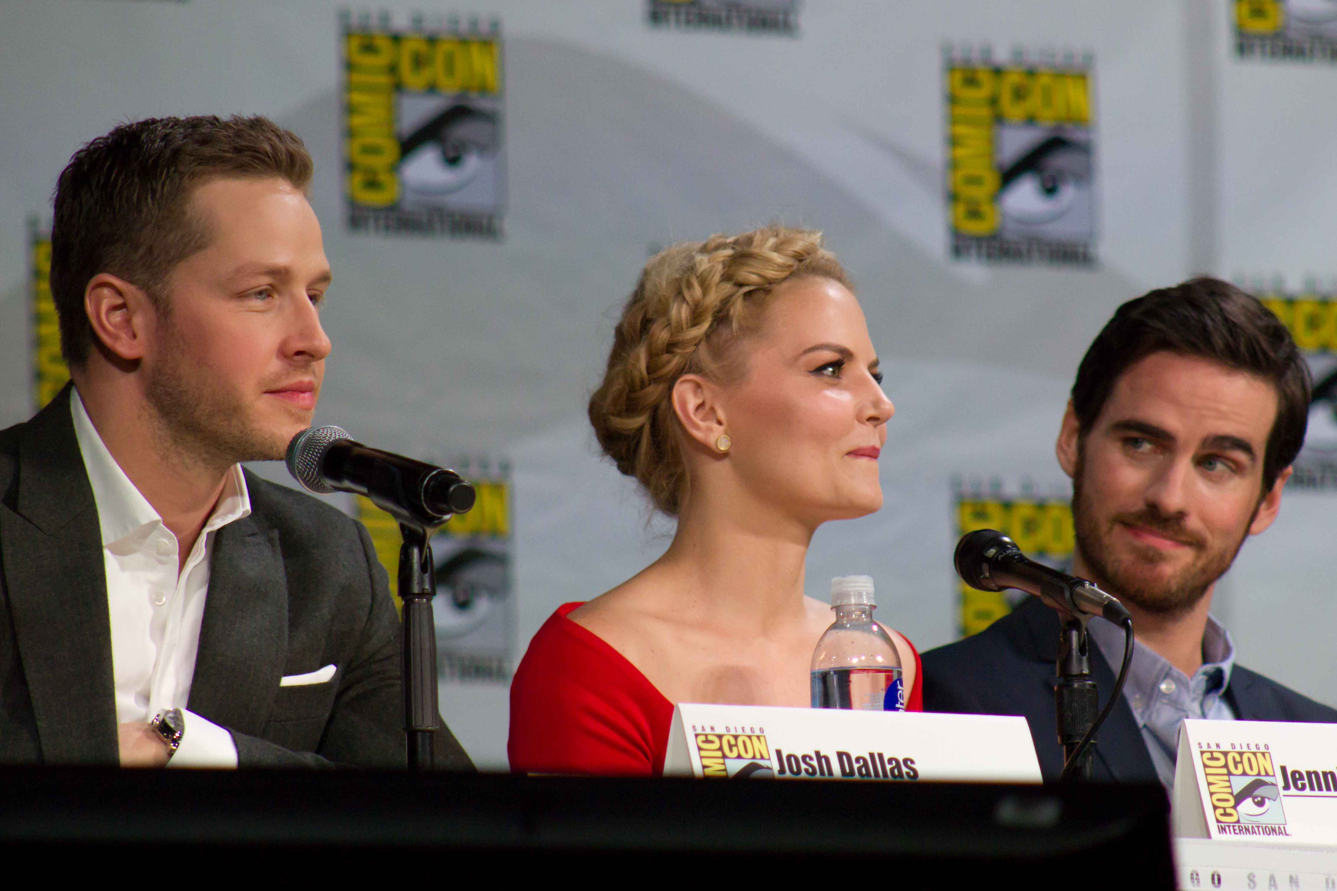 Josh Dallas, Jennifer Morrison & Colin O'Donoghue Once Upon a Time Panel at the 2014 Comic-Con International.